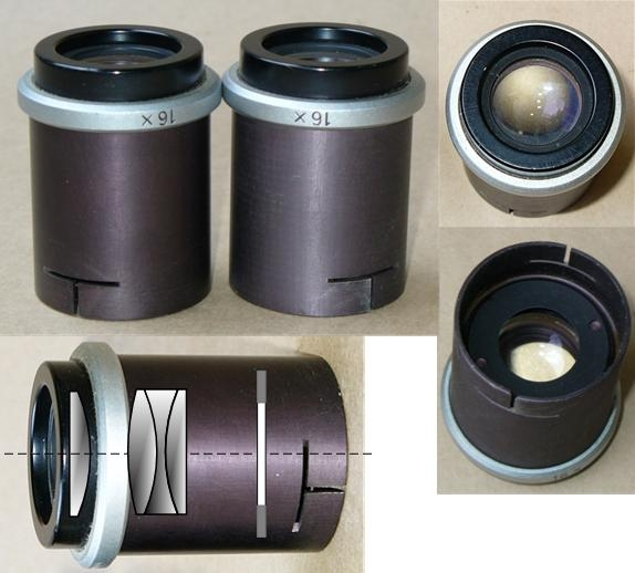 Orthoscopic microscope eyepiece.